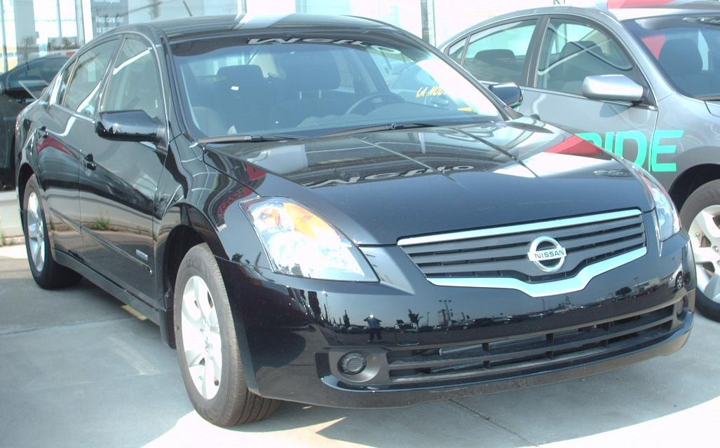 2007 Nissan Altima Hybrid photographed in Montreal, Quebec, Canada.